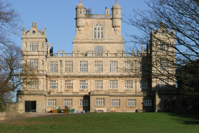 Wollaton Hall. seen as approached from the lake, Wollaton Deer Park, Wollaton Nottingham.